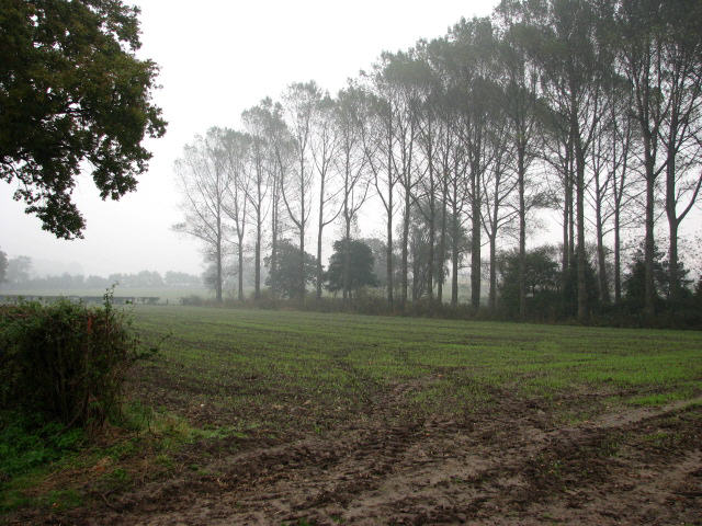 Row of poplars in the drizzle ... next year's crop turning the field velvety green in the mist.